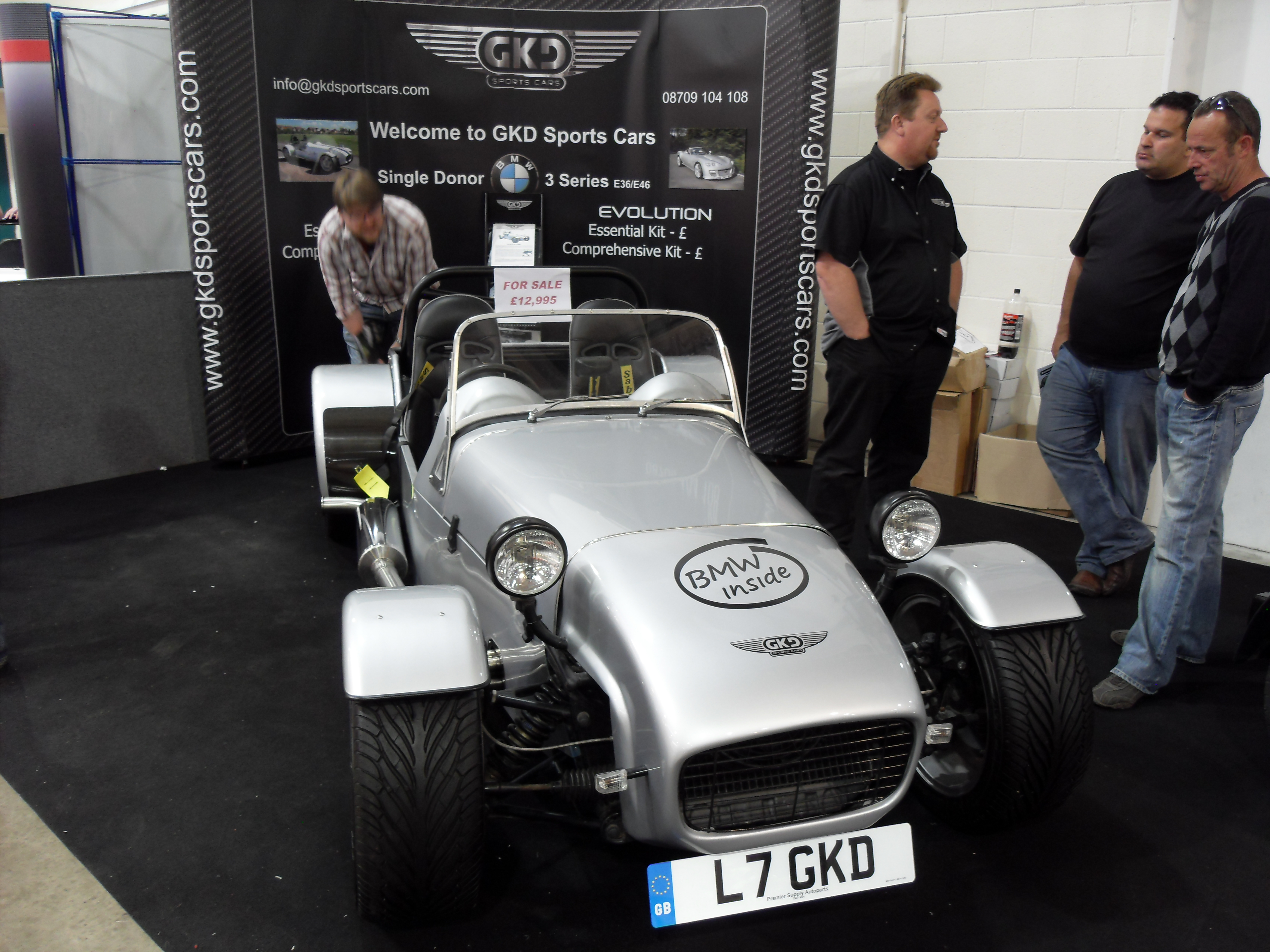 National Kit Car Show Stoneleigh 2011